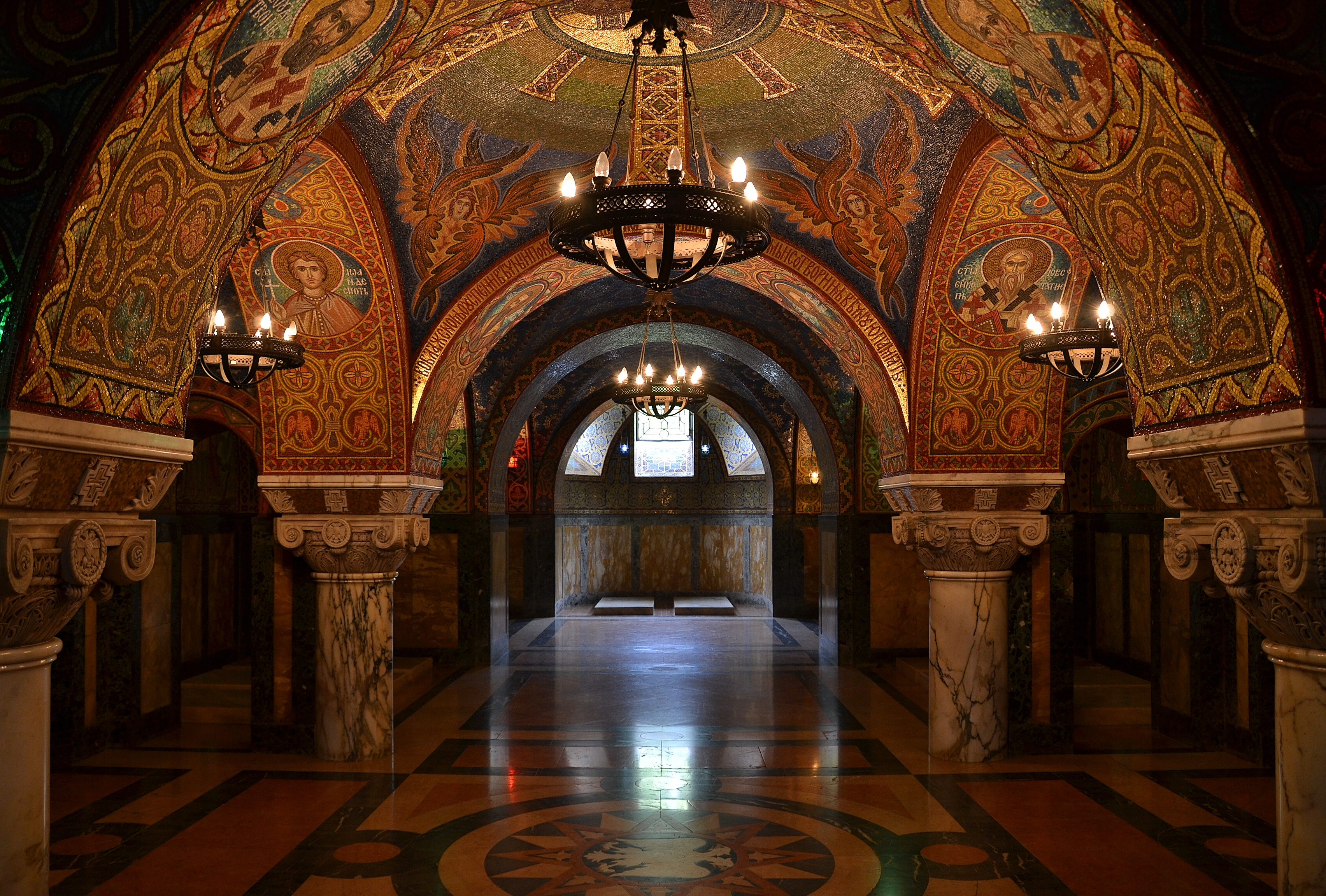 Church of St. George in Topola, Serbia